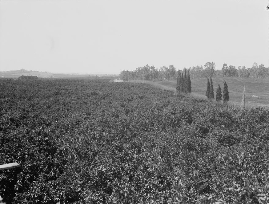 The orange groves, Matson collection